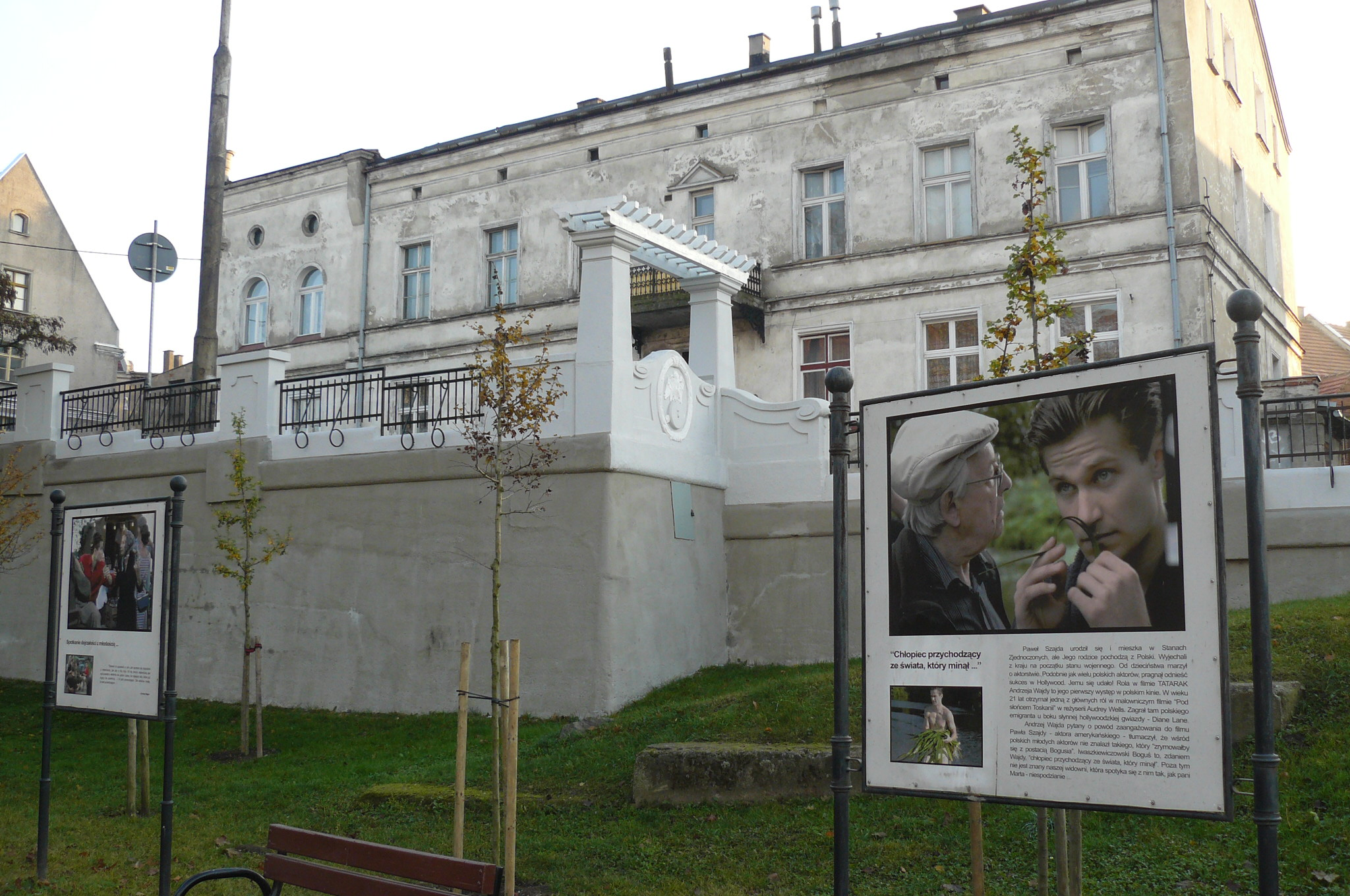 Exhibition of photographs in Grudziądz. In this town filming the movie "Tatarak". The exhibition is devoted to the realization of this work.